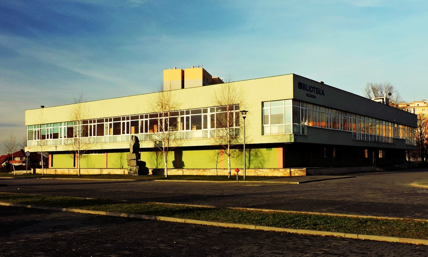 The Main Library of the Kazimierz Pułaski University of Technology and Humanities in Radom